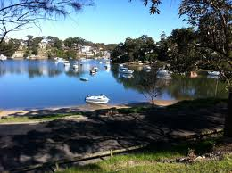 Oatley Park